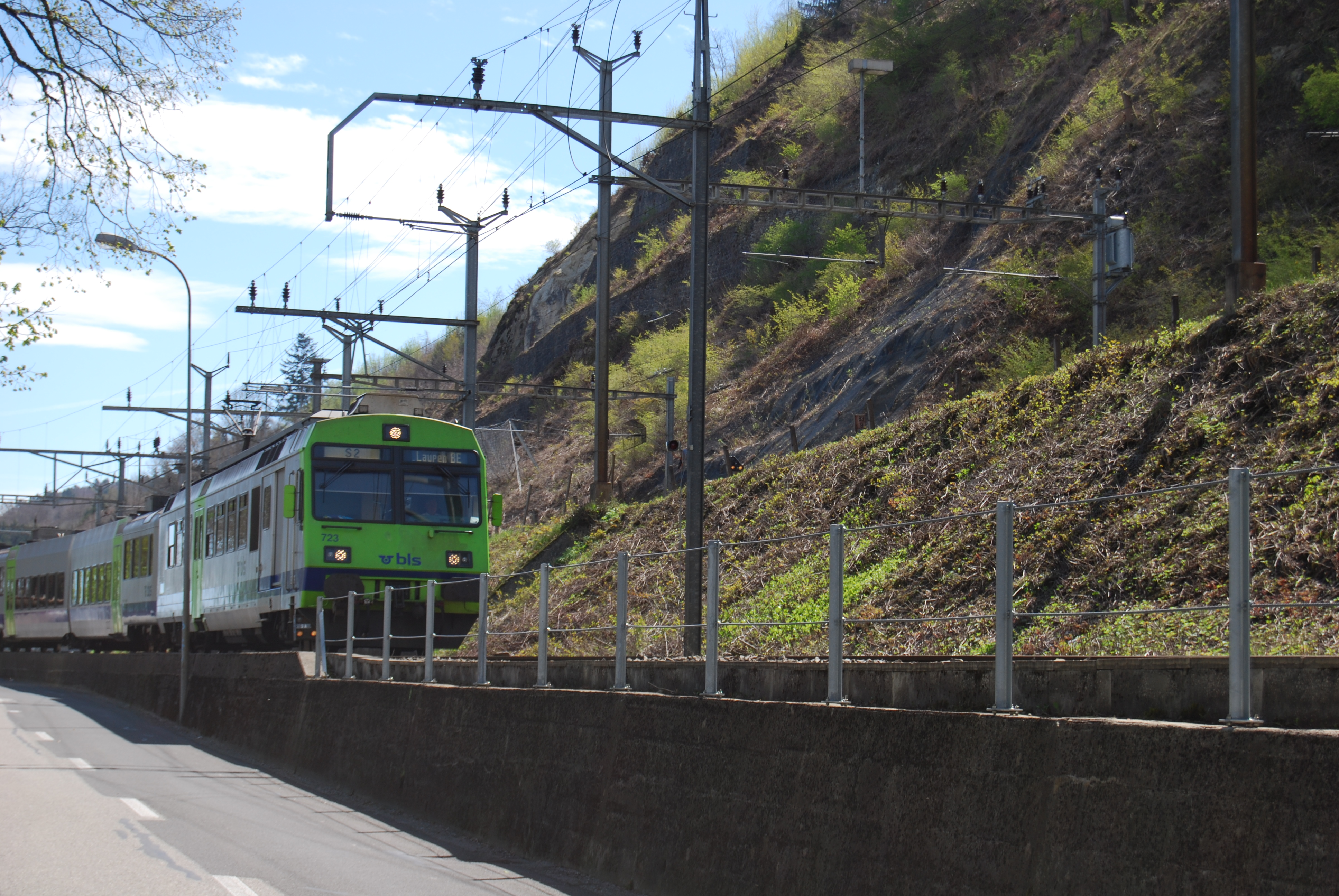 Trainstation of Flamatt, Wünnewil-Flamatt, canton of Fribourg, Switzerland